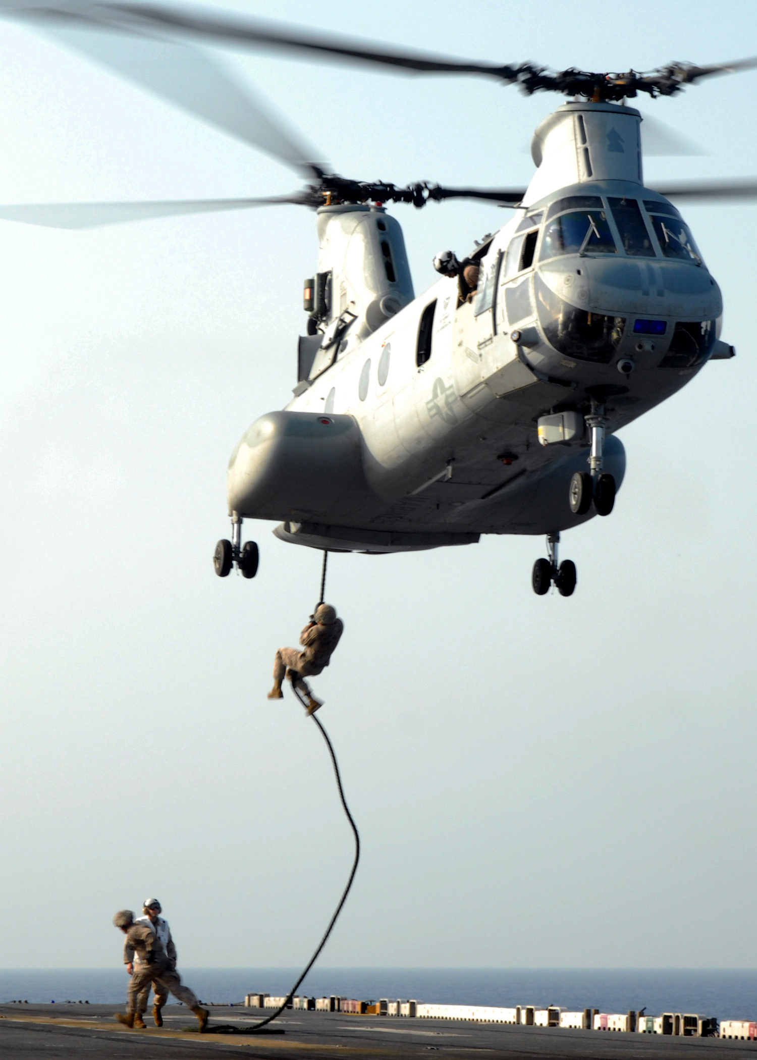 RED SEA (Sept. 25, 2008) Marines from the 26th Marine Expeditionary Unit (26th MEU) practice fast-rope techniques from a CH-46E Super Stallion from Marine Medium Helicopter Squadron (HMM) 264 aboard the multi-purpose amphibious assault ship USS Iwo Jima (LHD 7). Iwo Jima is deployed as part of the Iwo Jima Expeditionary Strike Group supporting maritime security operations in the U.S. 5th Fleet area of responsibility. (U.S. Navy photo by Mass Communication Specialist 3rd Class Jennifer Hunt/Released)